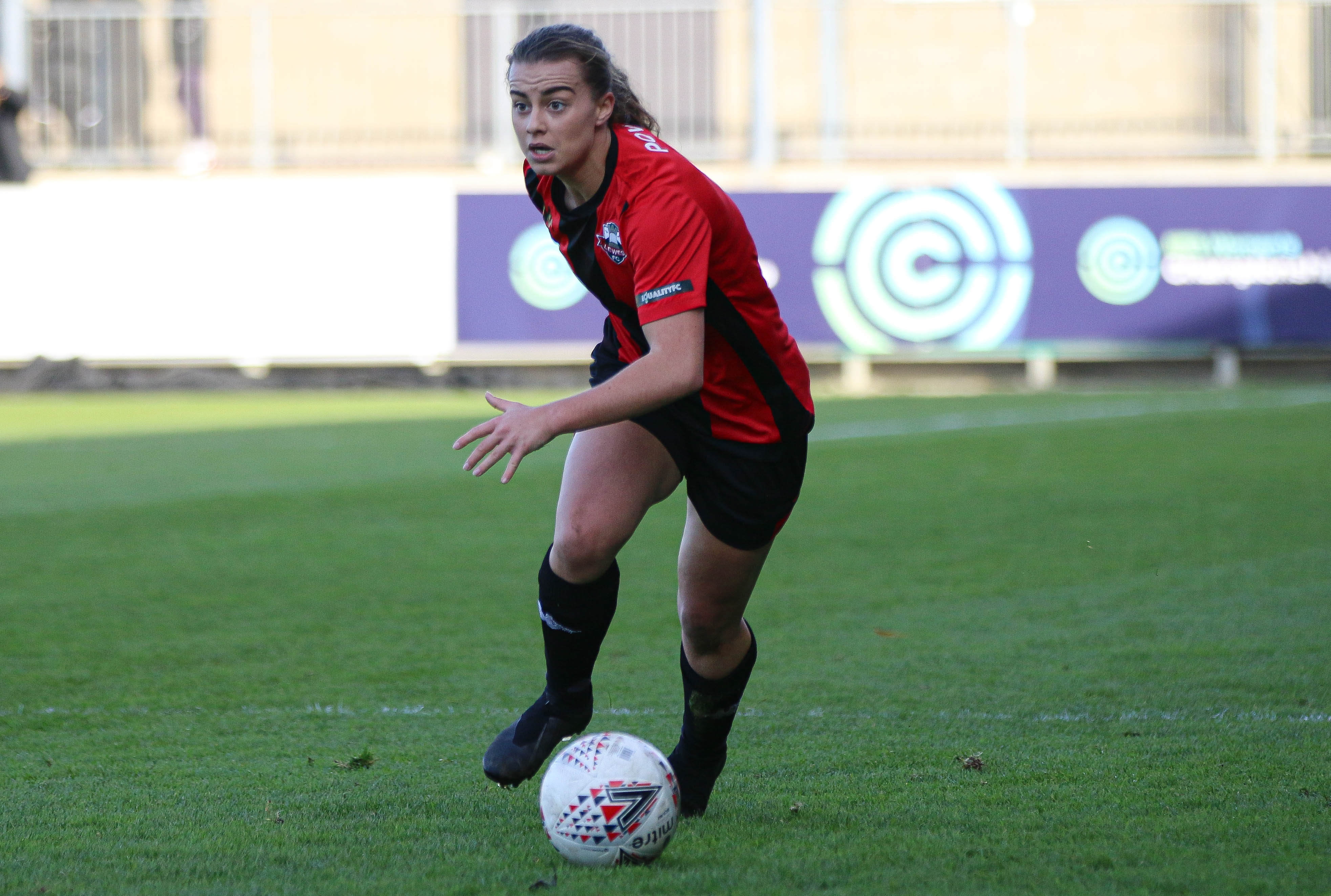 Lewes and Wales footballer Ella Powell in October 2019